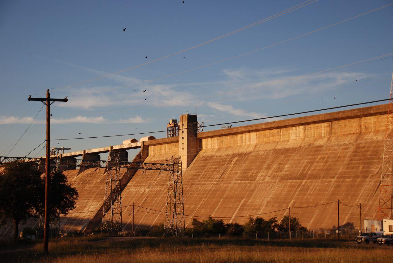 A photo of Mansfield Dam in Marshall Ford near Austin, TX